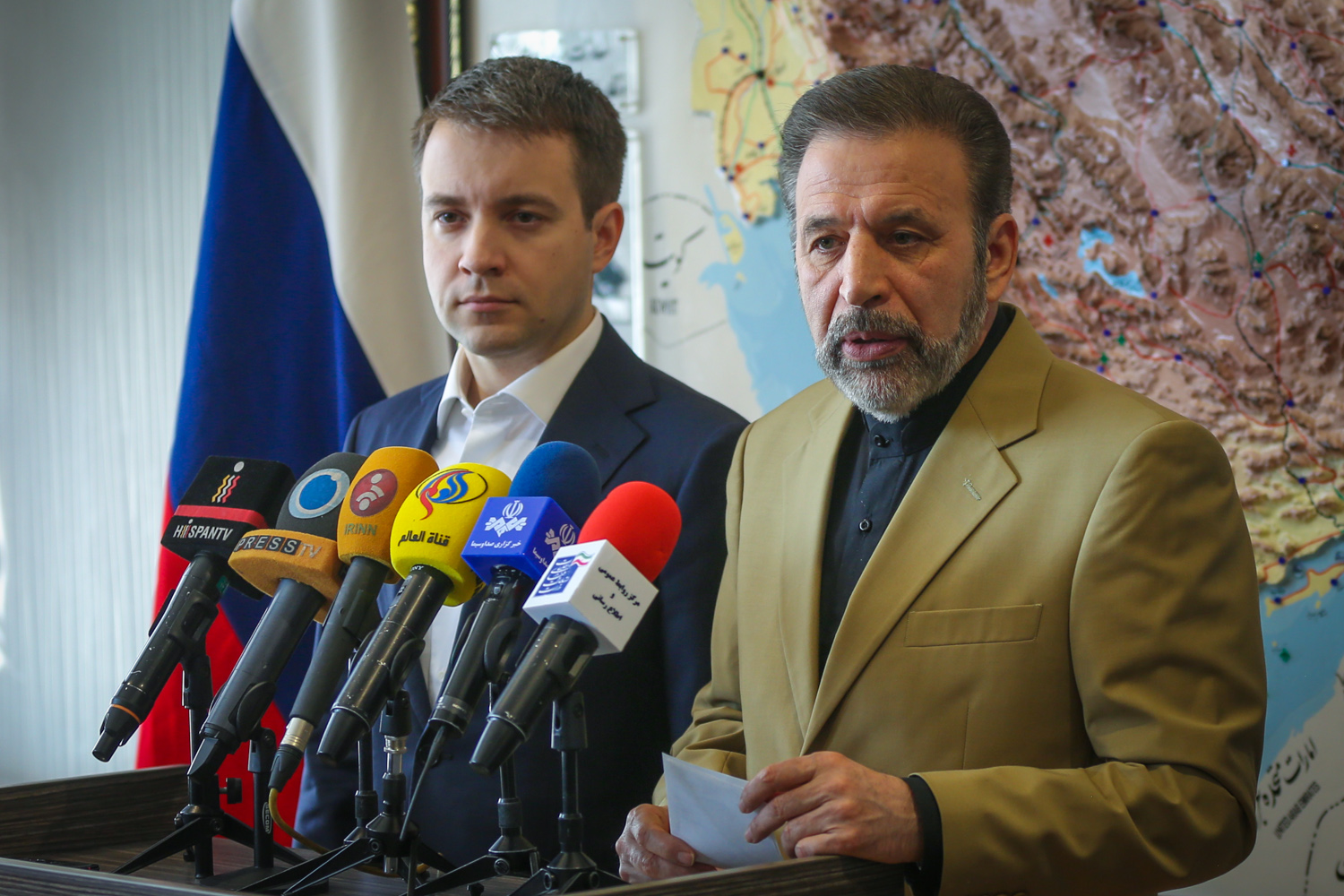 Russian Minister of Telecom and Mass Communications Nikolay Nikiforov and Minister of Communication and Information Technology of Iran Mahmoud Vaezi during a working meeting in Tehran, 25 October 2015.